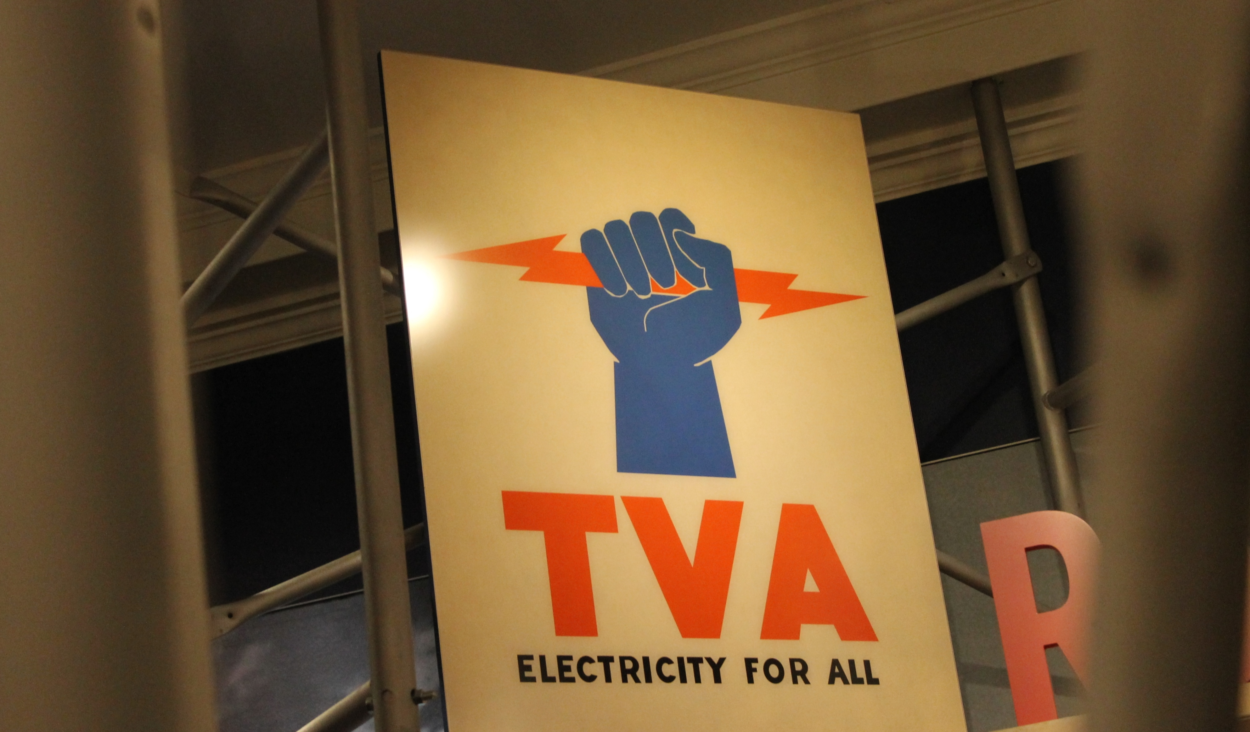 Tennessee Valley Authority electricity sign at Franklin D. Roosevelt Presidential Library and Museum in Hyde Park, NY: public domain, presidential library, U.S. government